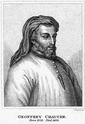 Geoffrey Chaucer re: .png below: chaucer image from the meta-wikipedia. I reuploaded this as a .png; it was a .gif with an incorrect extension. I also dropped it to 18 colors, the # actually being used, to make the file smaller. I don't know who uploaded it to meta; I moved it over in Nov. 2002 as a result of no longer displaying off-site images as a result of the goatse vandal. Koyaanis Qatsi 18:16 14 Jun 2003 (UTC)